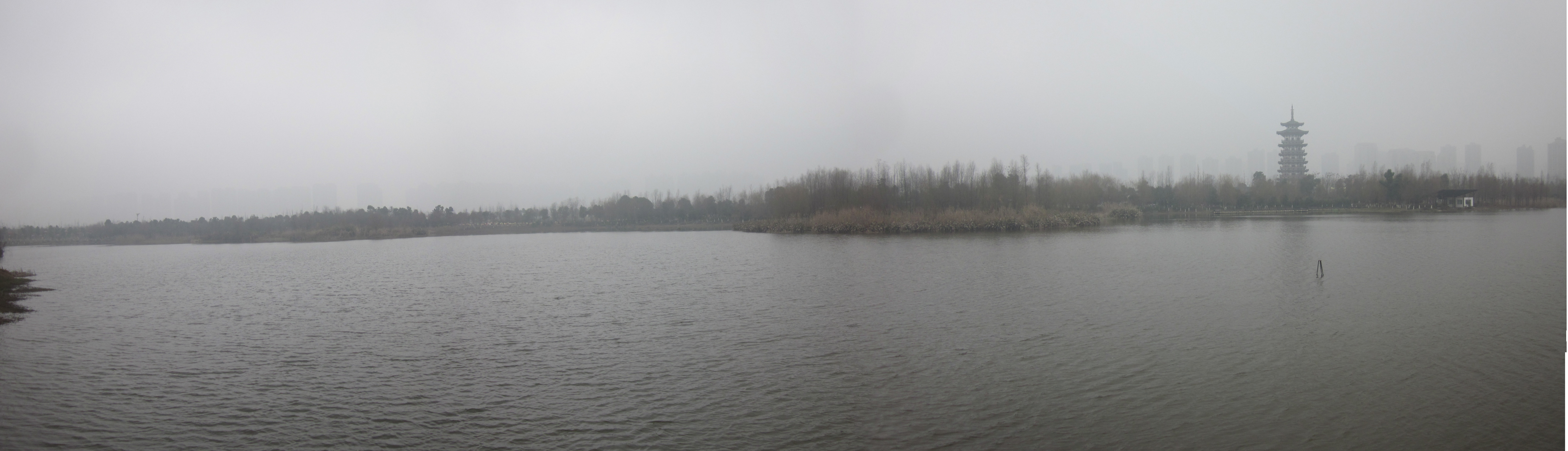 A panoramic view of Lake Yang in 2017.